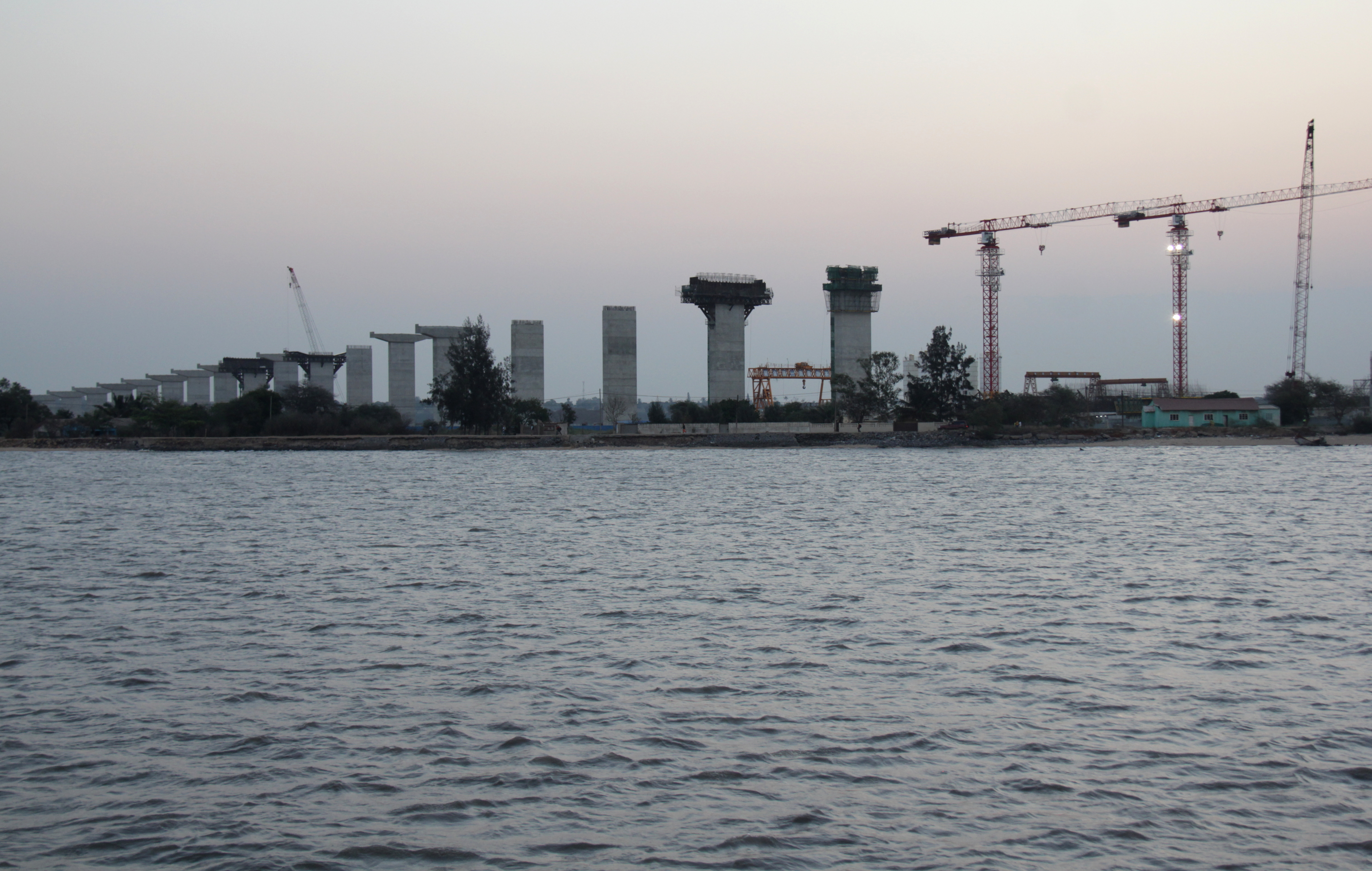 Pillars of the bridge between Maputo and Catembe, Mozambique